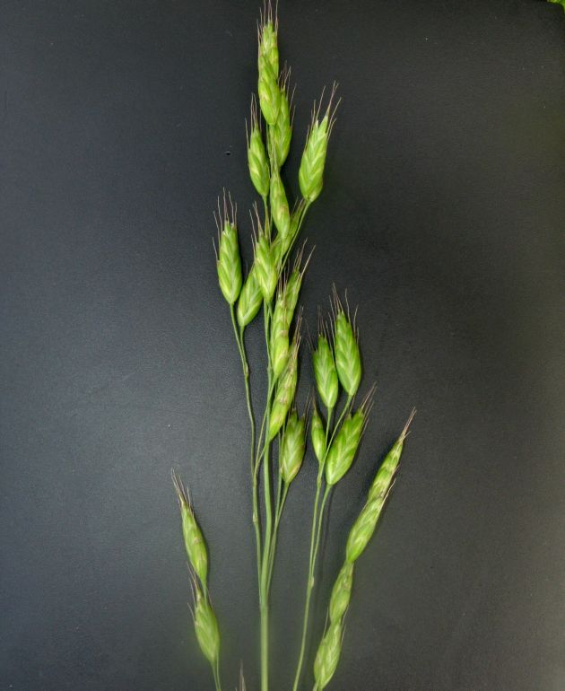 Bromus arvensis